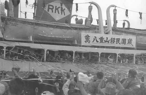 Settlement in Yaeyama